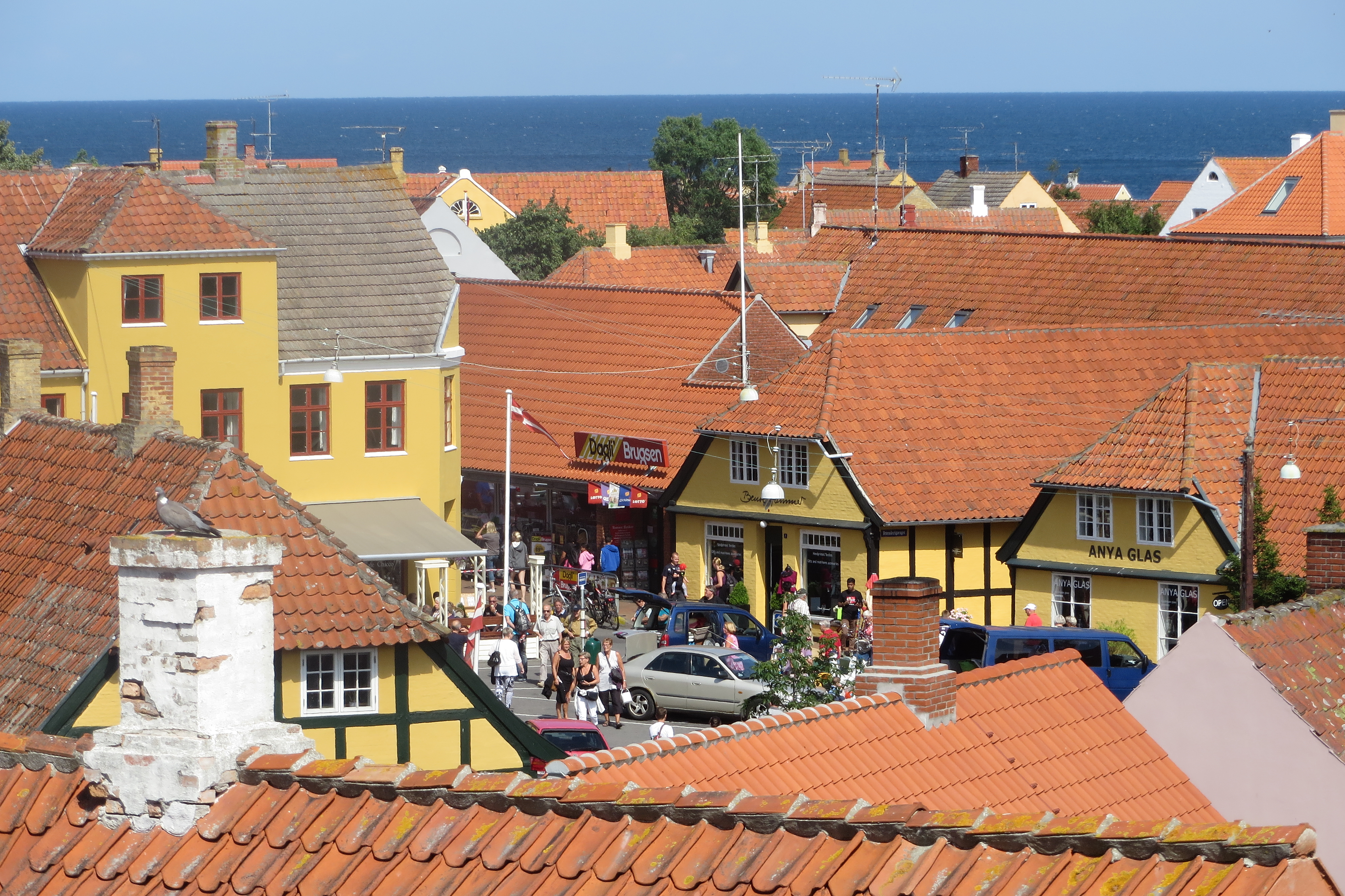 Svaneke, Bornholm, marketplace